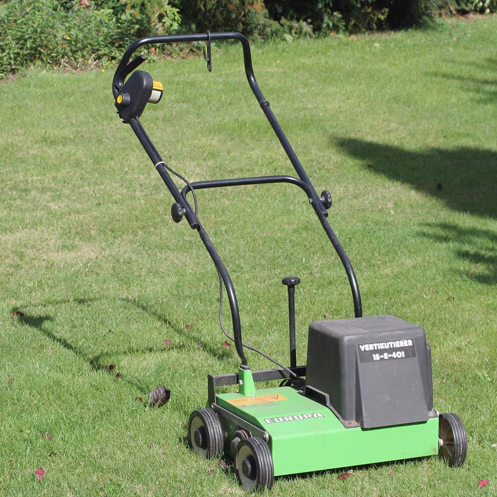 Electric lawn scarifier